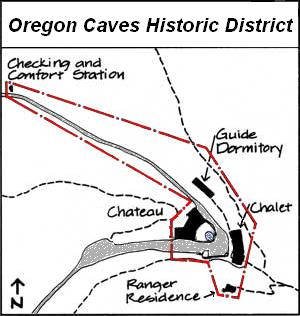 Map of the Oregon Caves Historic District, Oregon Caves National Monument, Oregon, United States.